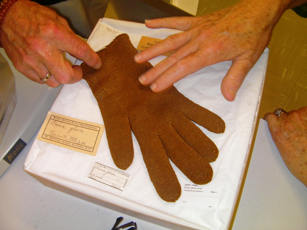 Knitted sea-silk glove from Taranto, Italy. Probably late 1800s